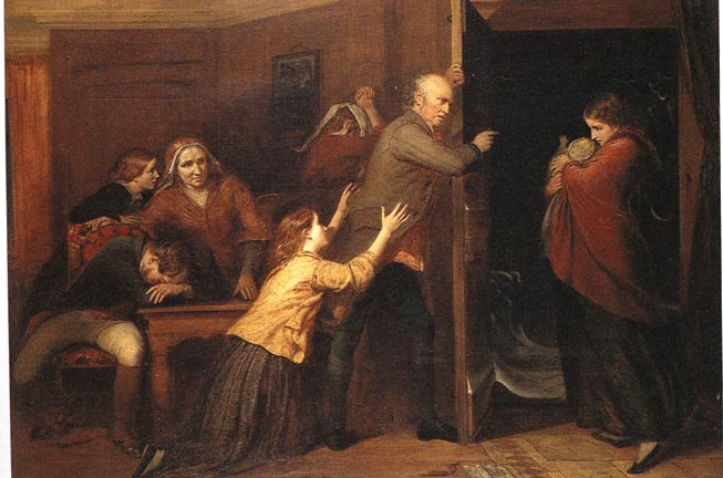 A patriarch kicking his daughter and her illegitimate baby out of the house